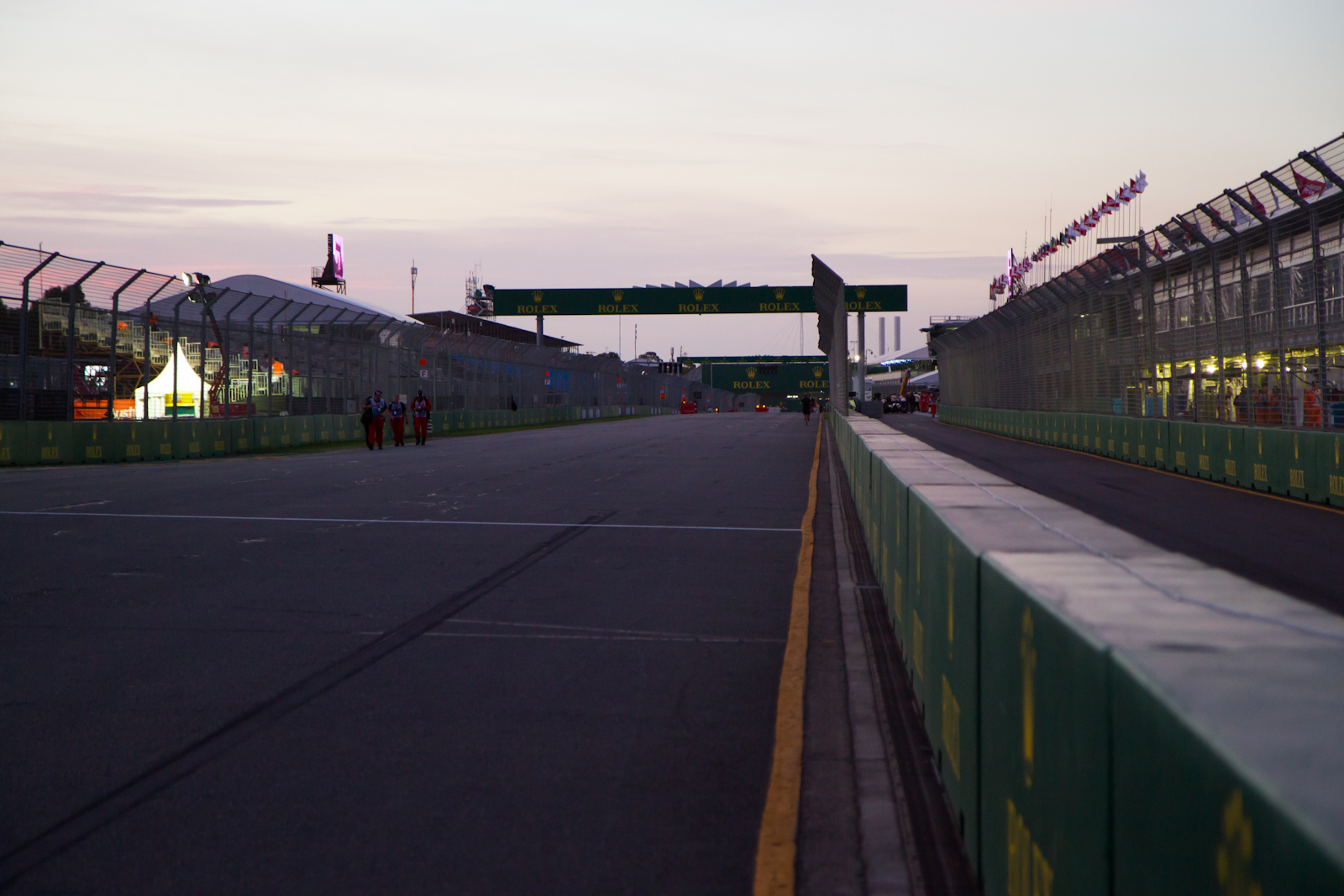 2014 Australian F1 Grand Prix